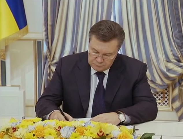 President of Ukraine Viktor Yanukovych signing de-facto capitulation agreement with opposition